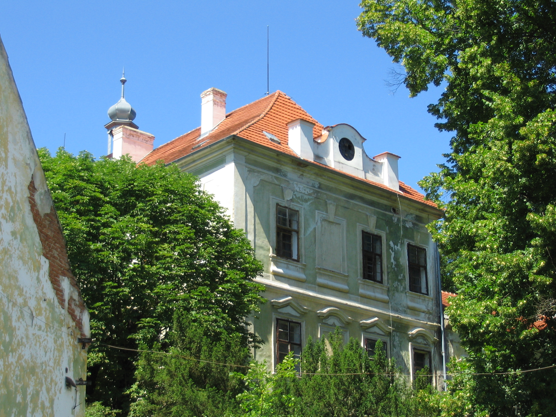 Castle in Němčice, Strakonice District, Czech Republic